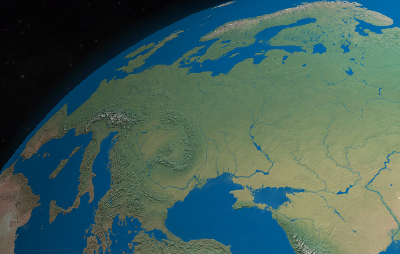 Digital rendering of the satellite view of Eastern Europe. This globe rendering is a screenshot from the Globe Master geography game, shared by the game authors. For the globe texture, Whole world - land and oceans composite image was used, created by NASA/Goddard Space Flight Center (public domain).